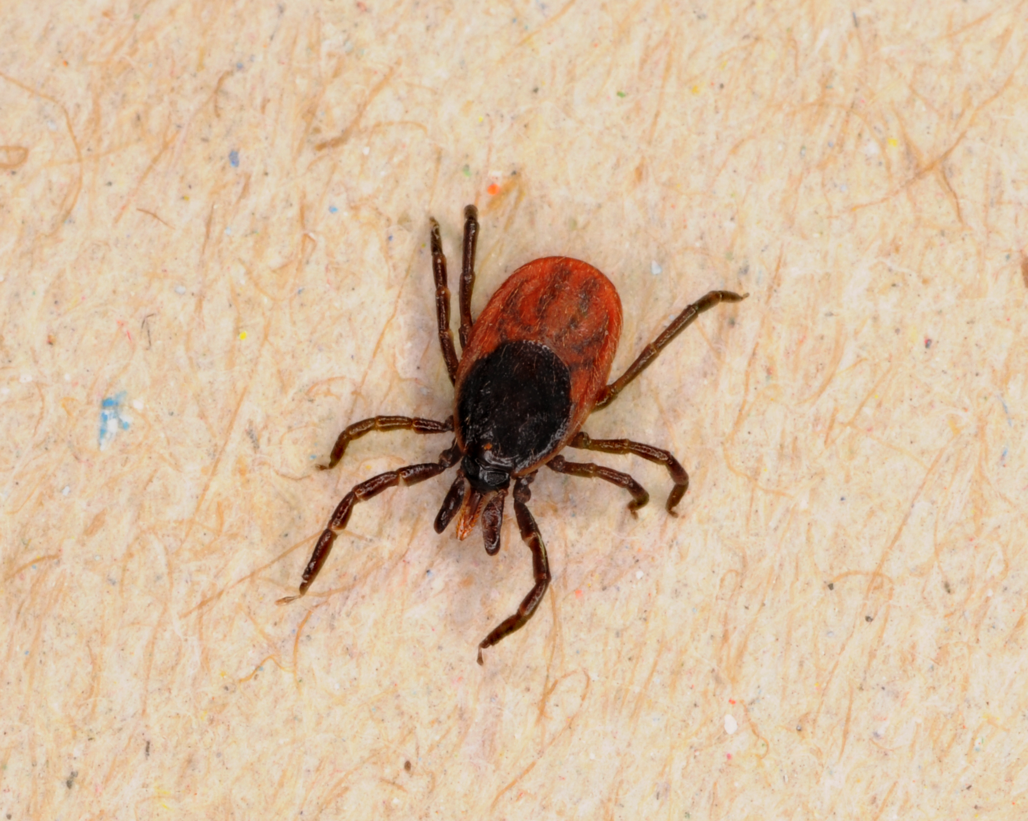 Ixodes ricinus, adult female, size nearly 3 millimeters (picture taken on a sheet of paper with macro lens and ring flash)